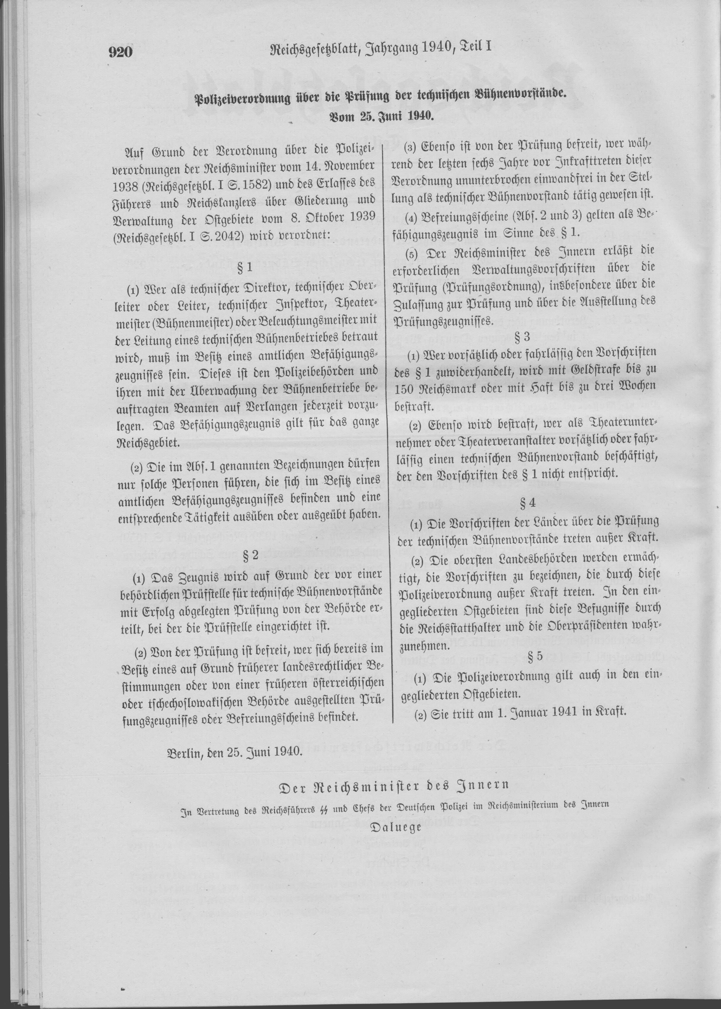 Scan from the Imperial Law Gazette of Germany, 1940, part 1